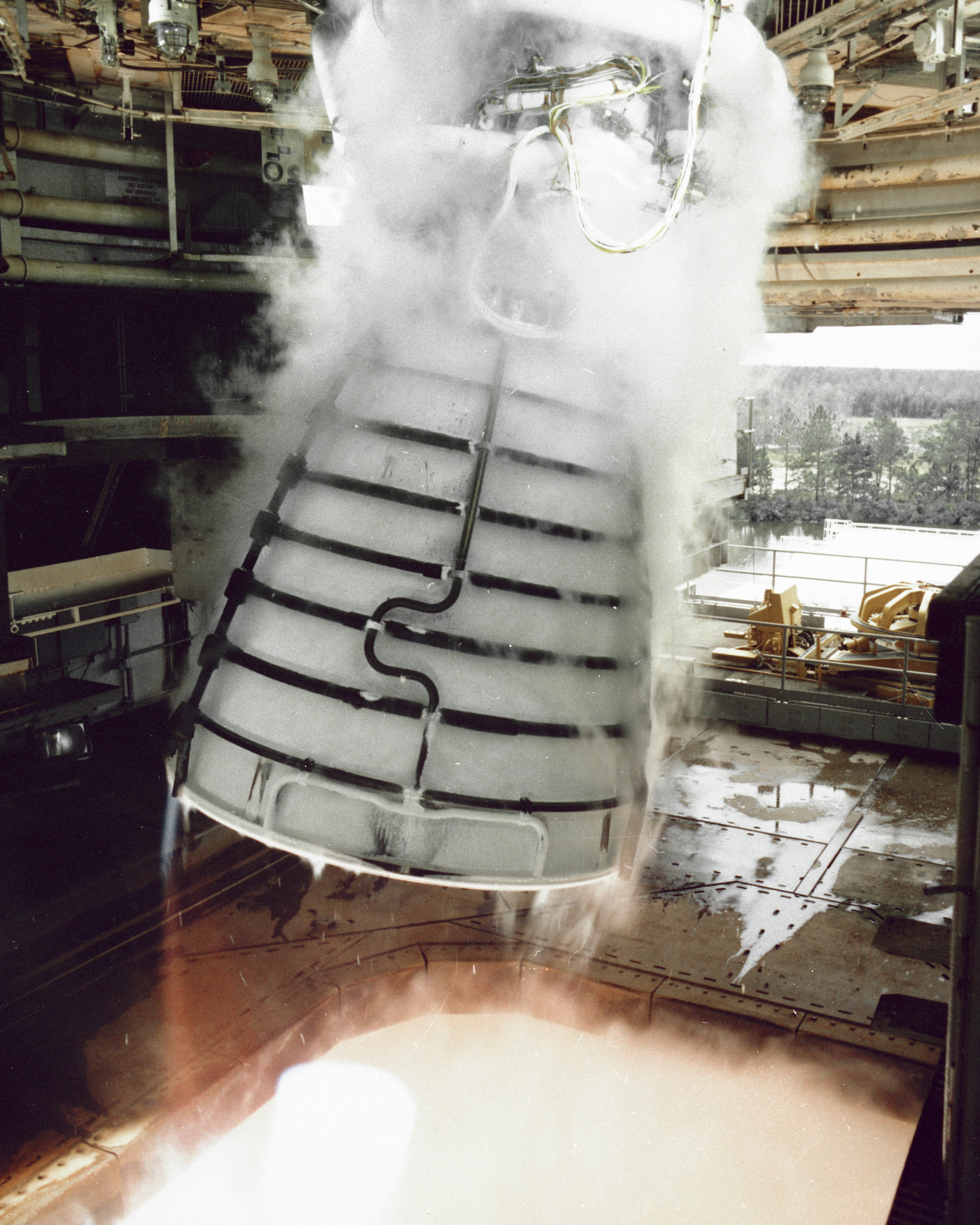 A close-up view of a Space Shuttle Main Engine during a test at the John C. Stennis Space Center shows how the engine is gimballed, or rotated to evaluate the performance of its components under simulated flight conditions.